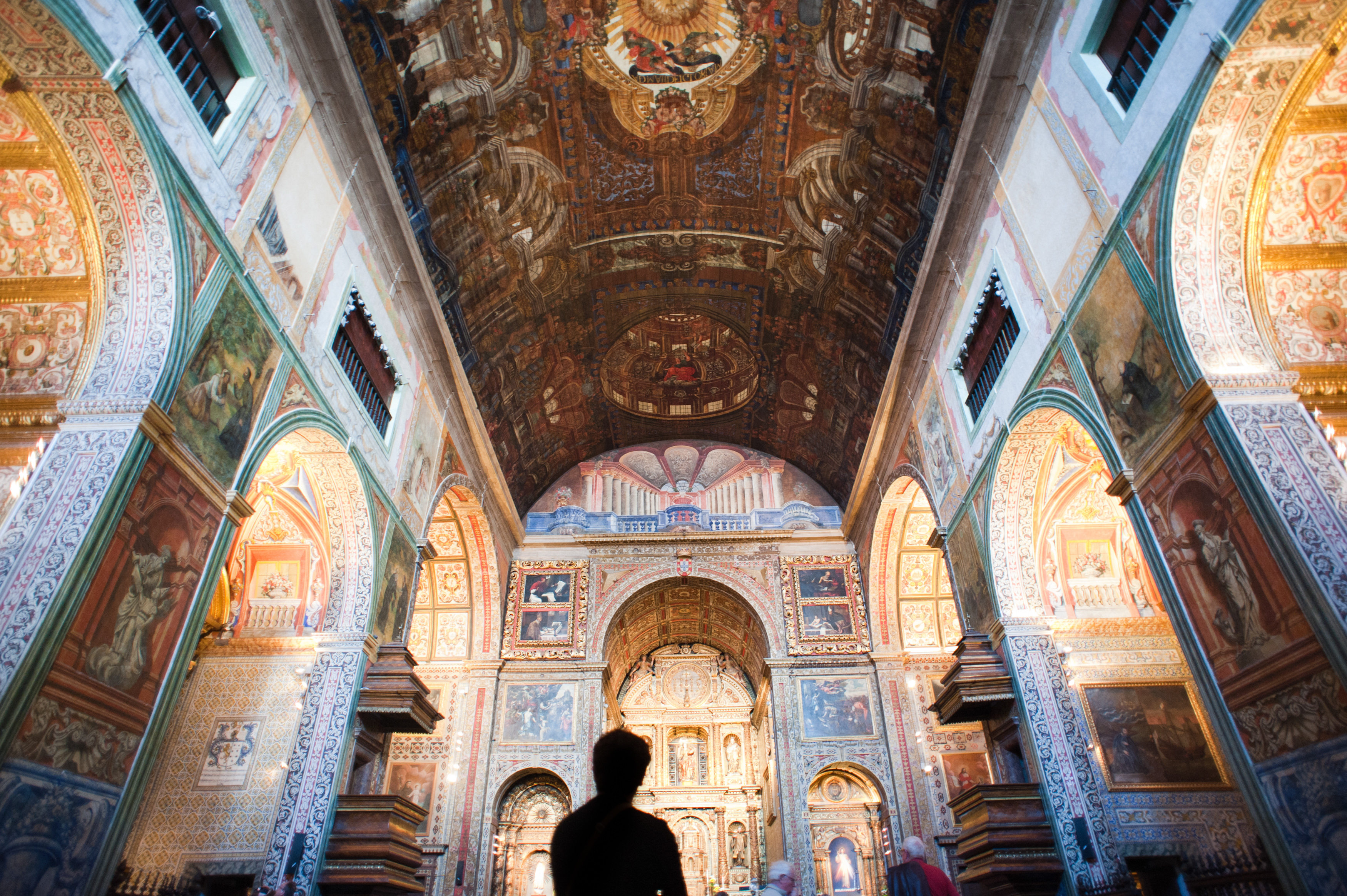 The Igreja do Colégio interior (Barocco ), Funchal's City Square. Funchal, Portugal, Autonomous Region of Madeira, Southwestern Europe.